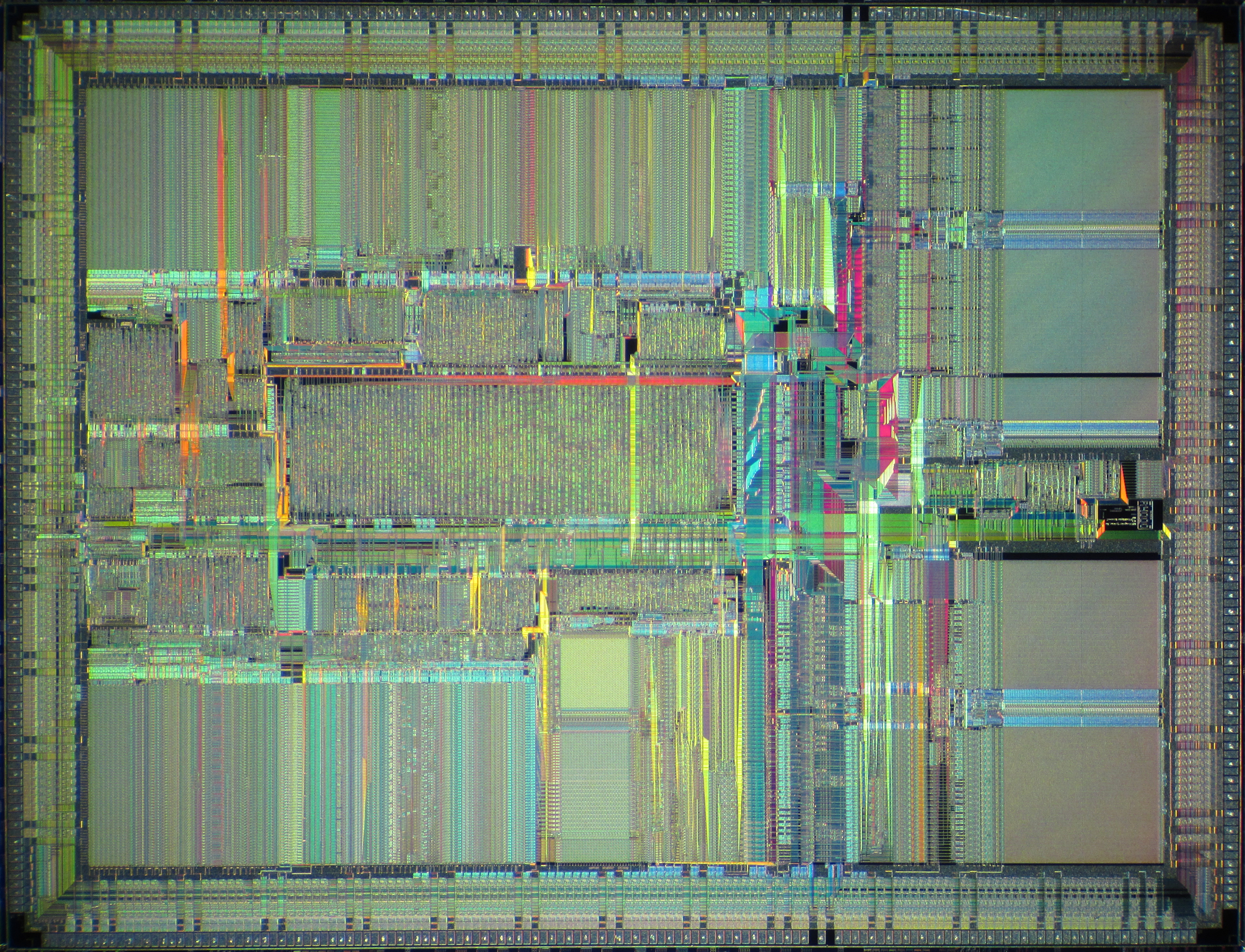 Die shot of MIPS R4000 microprocessor on wafer.